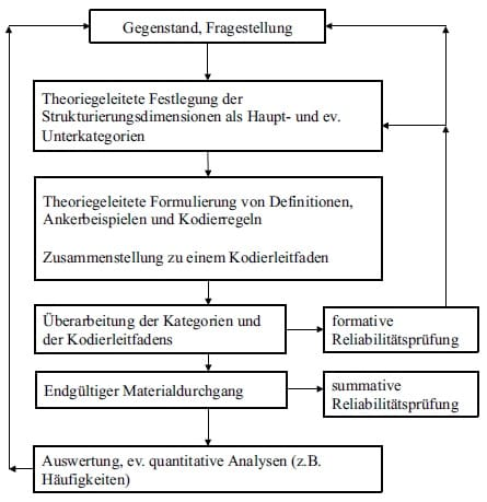 qualitative content analysis